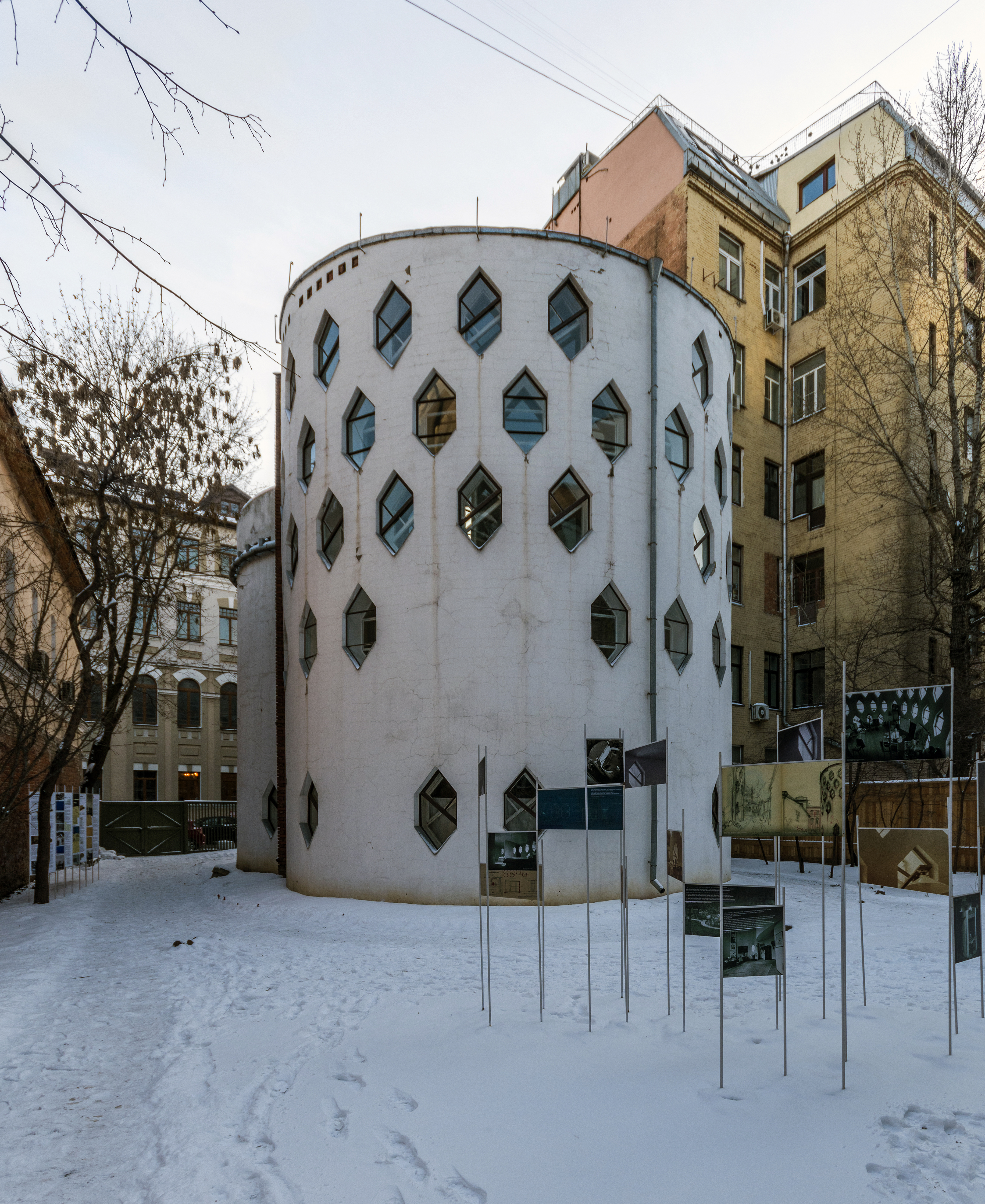 Architector Melnikov House in Moscow